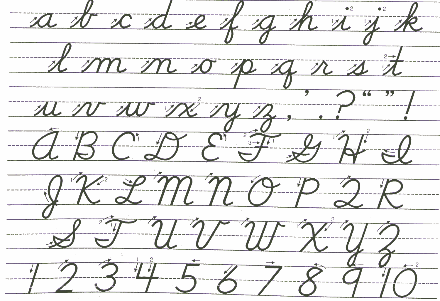 I made it myself (Sotakeit)